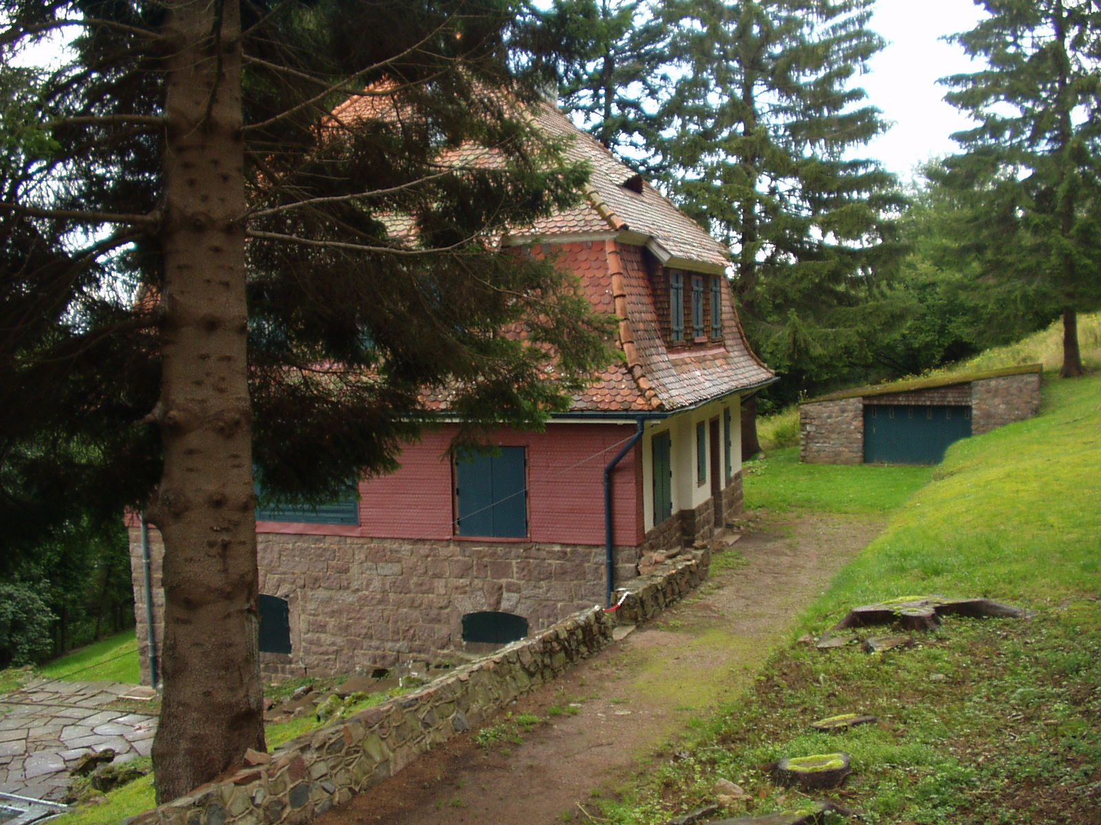 Description = Villa of the commander of the concentration camp Struthof, France Author = Philipp Hertzog